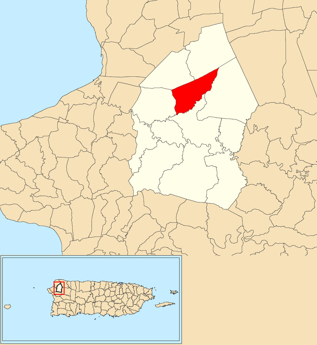 Cuchillas, Moca, Puerto Rico locator map